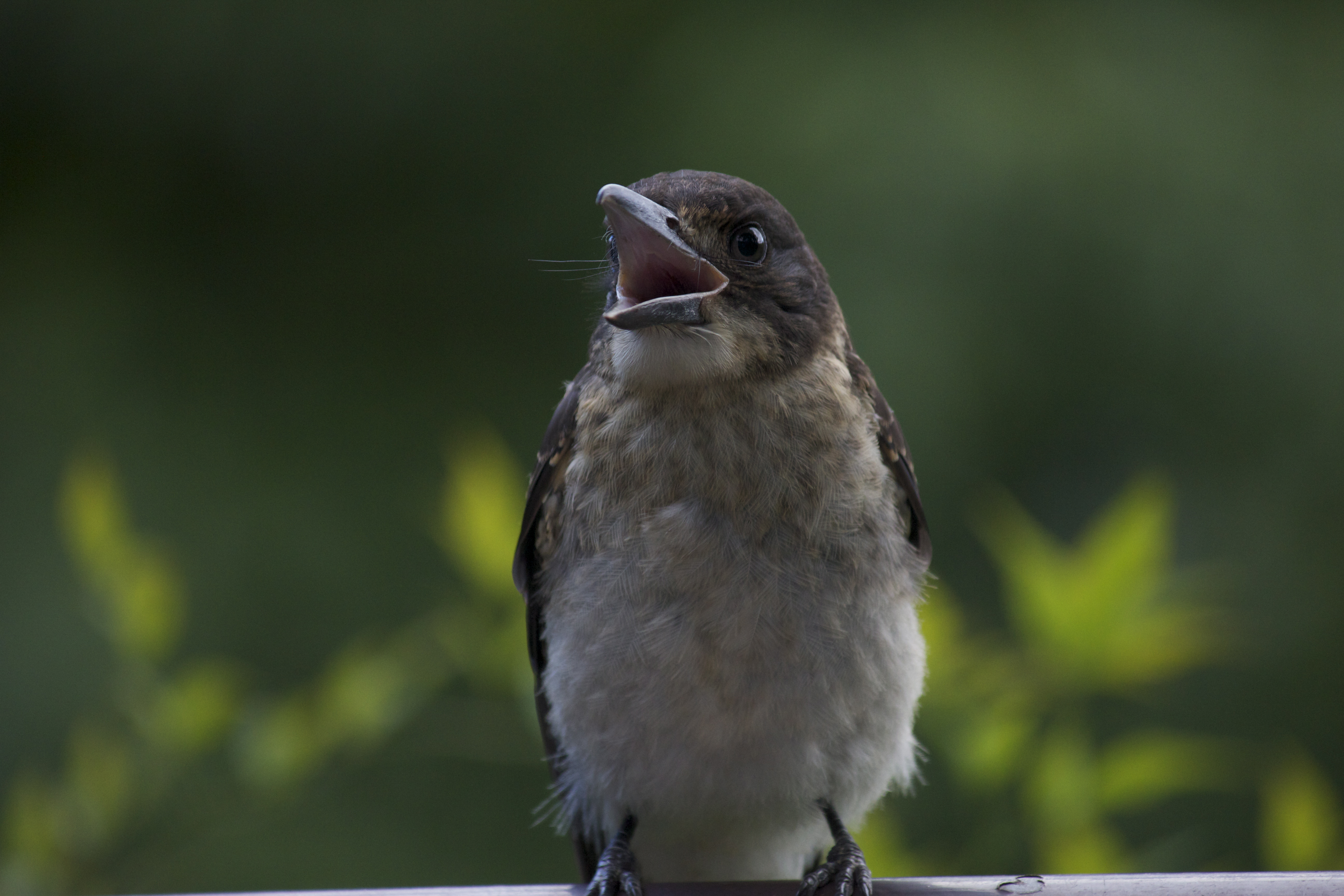 Cracticus torquatus is also known as the Grey Butcher Bird. This image was taken in Pymble - Sydney, Australia.